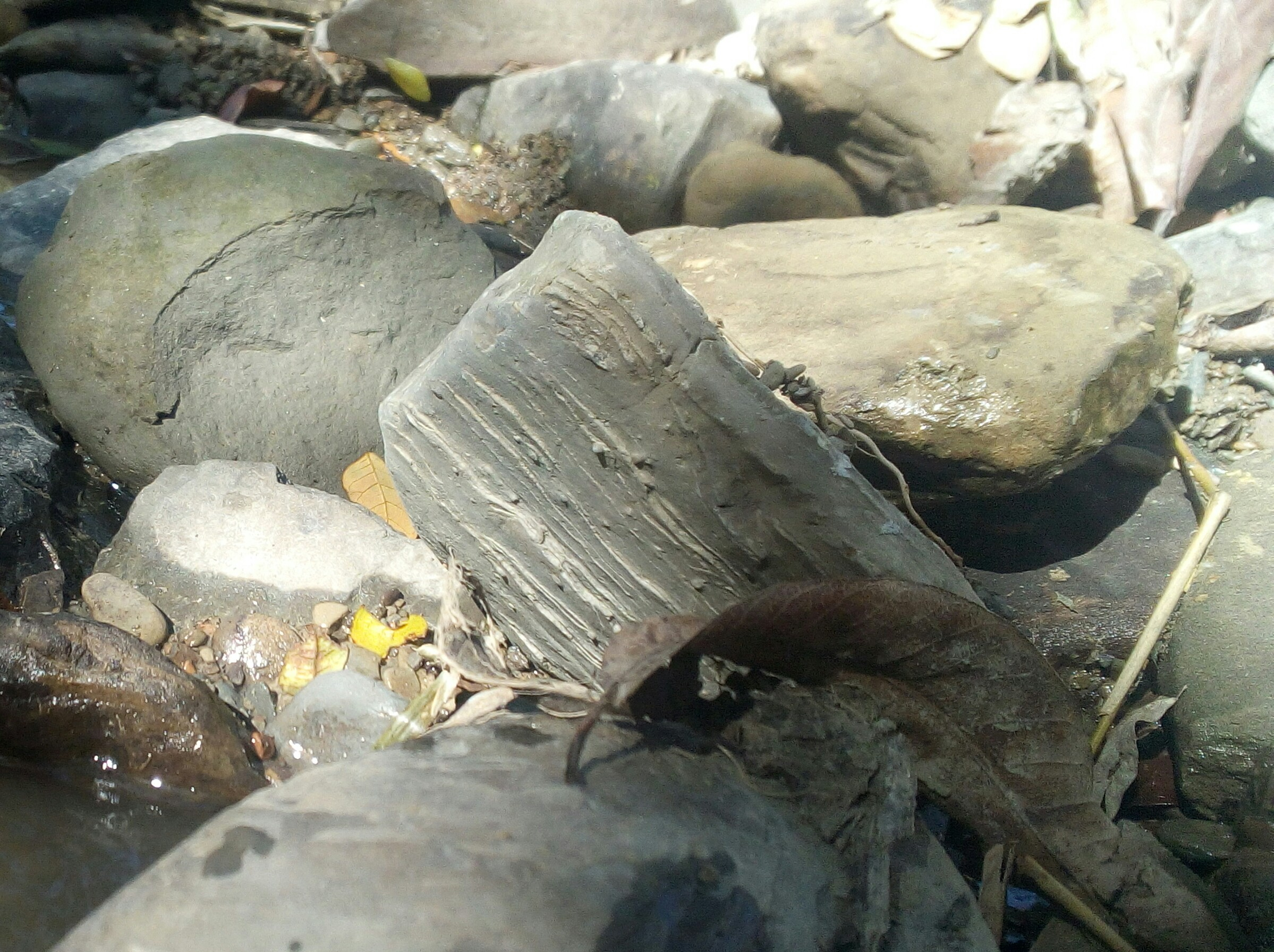 Elongated sand lenses in the shale fragment indicates lenticular bedding.